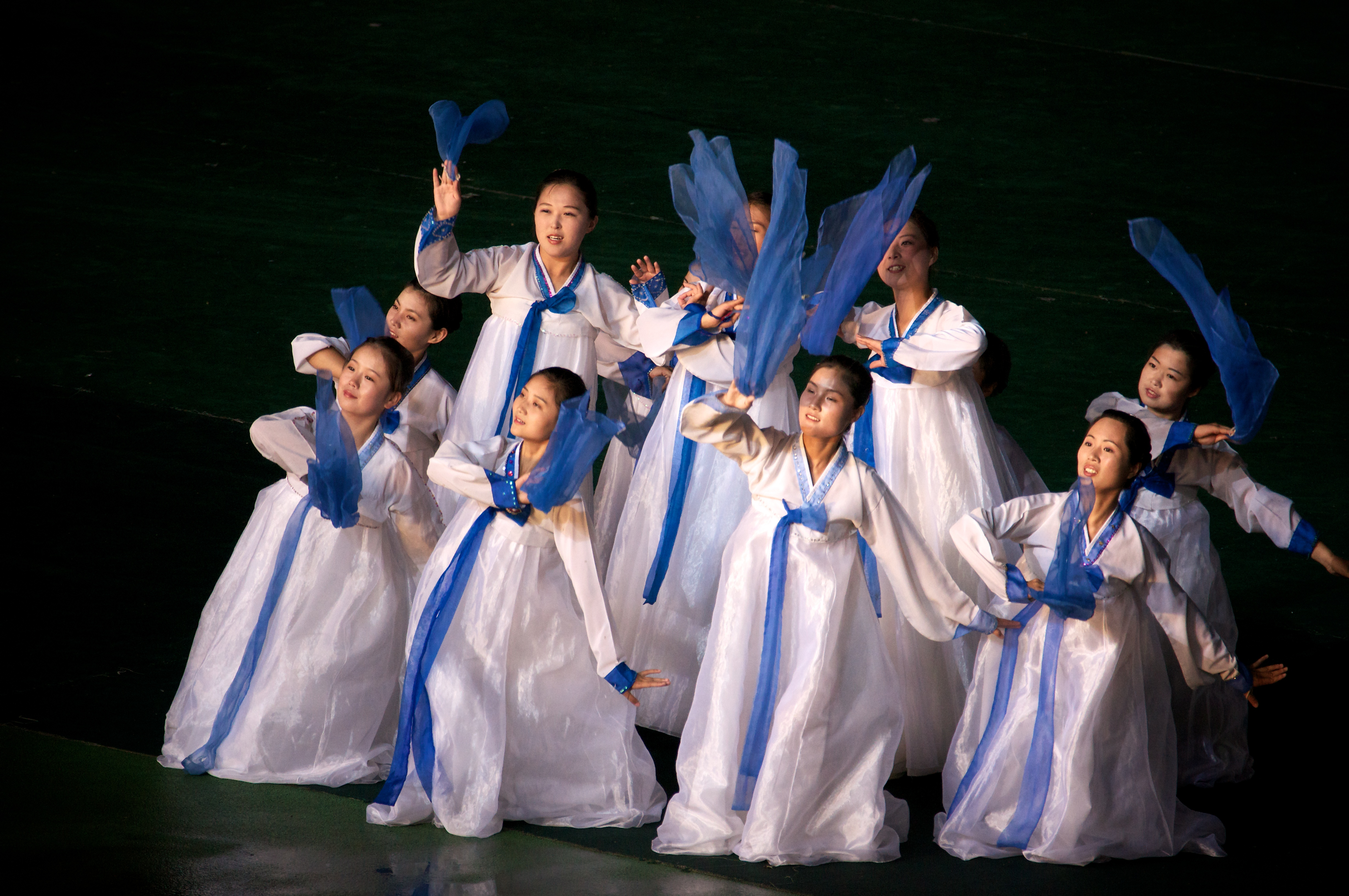 Women dressed in hanbok at Arirang, DPRK